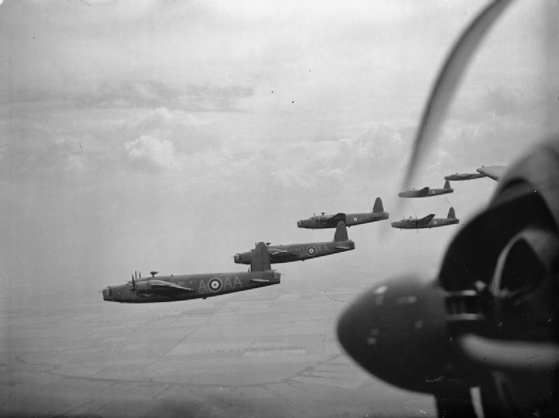 Vickers Wellington Mark IAs and ICs of No. 75 (New Zealand) Squadron RAF based at Feltwell, Norfolk (UK), flying in loose formation over the East Anglian countryside in November 1940. The leading aircraft in the formation (s/n P9206, "AA-A") was usually flown by the Squadron's Commanding Officer, Squadron Leader C.E. Kay. The Squadron was originally "The New Zealand Squadron" and became 75 Sqn (NZ) on 4 April 1940. In October 1946, in gratitude for the work done and sacrifices made by its New Zealand aircrew, Britain transferred the squadron number, badge and colours to the Royal New Zealand Air Force. No. 2 Squadron RNZAF was disposing of its Lockheed Ventura bombers at RNZAF Base Ohakea at the time, and so was disbanded and renumbered as No. 75 Squadron RNZAF.